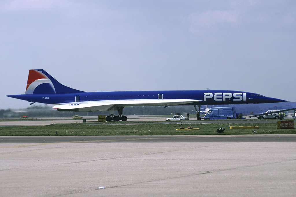 Part of a $500m re-branding project by Pepsi Cola included this spectacular Concorde repaint, which lasted for just 10 days at the beginning of April 1996. 2,000 hours of painting work were needed at Orly for the surprise unveiling at Gatwick on 2.4.96, in the presence of a number of show business and sports stars. A promotional tour of 10 cities across Europe and the Middle East followed. Supersonic flight above M1.70 over 20 mins in the blue paintwork was not allowed due to heat concerns